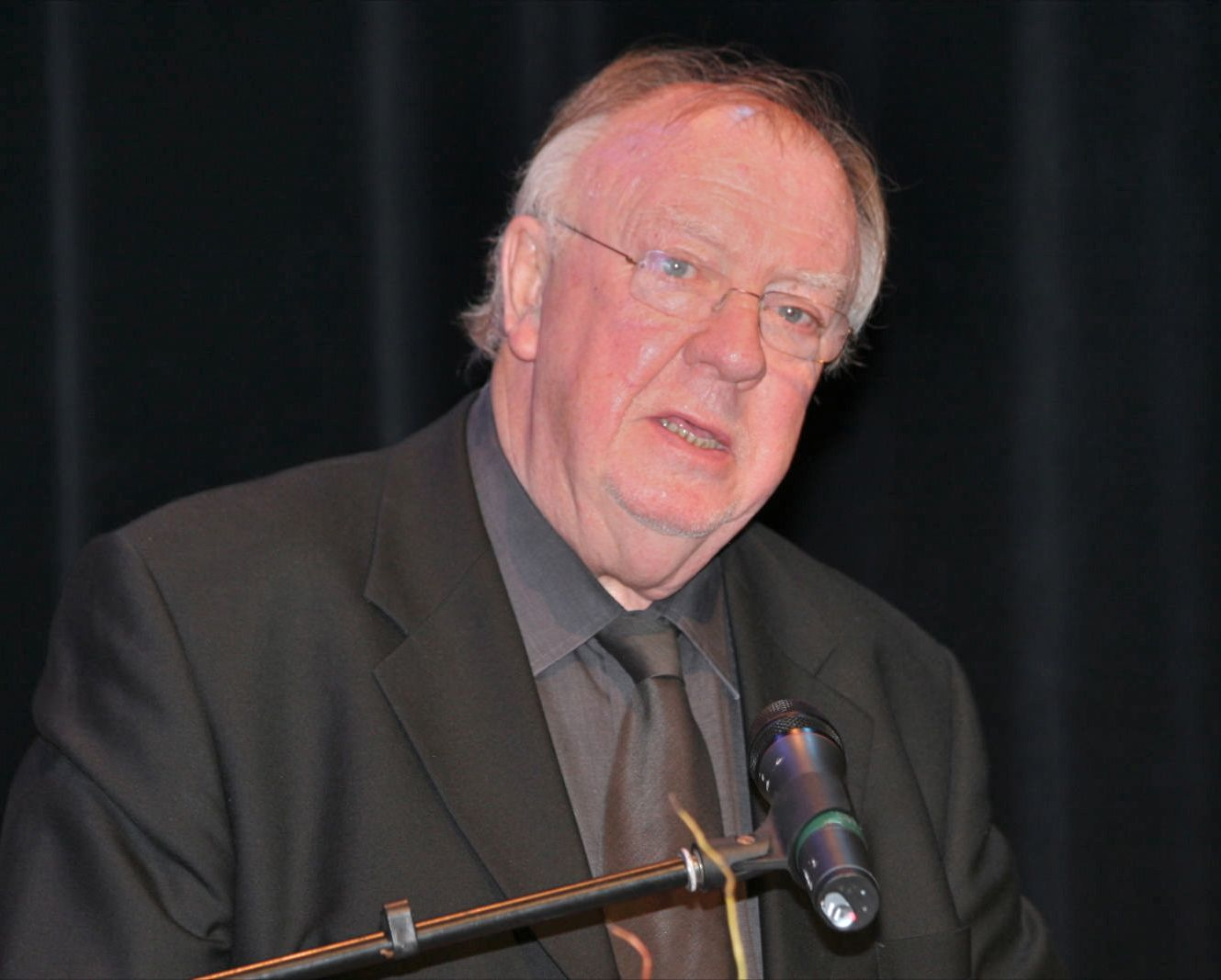 Luc Famaey